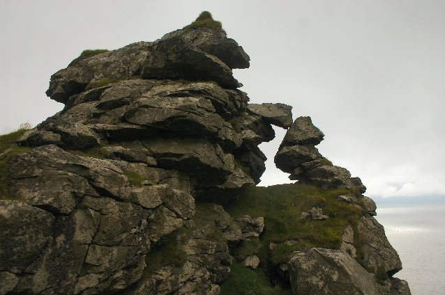 Mistress Stone, Ruival, Hirta, St Kilda.